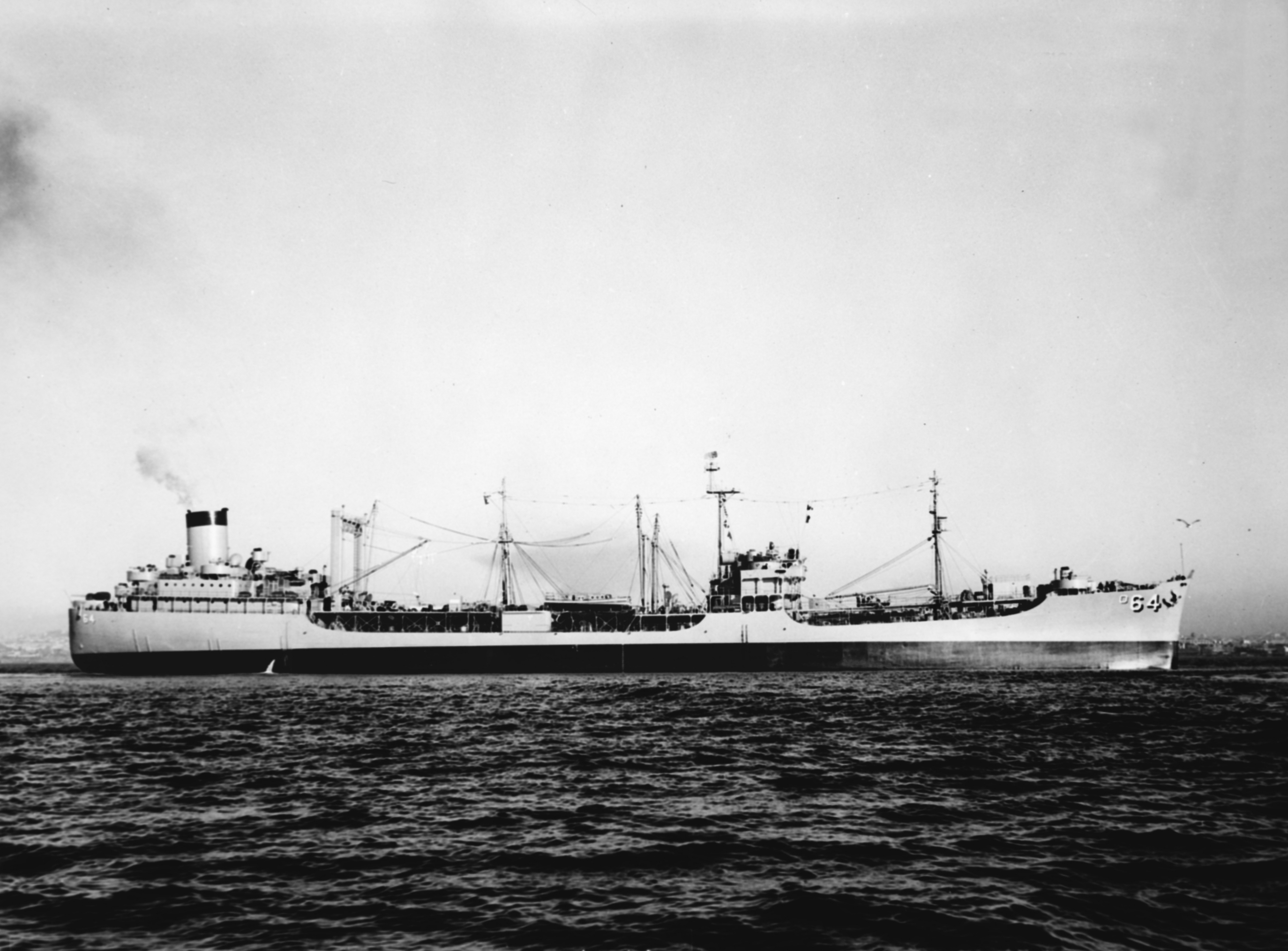 The U.S. Navy fleet oiler USS Tolovana (AO-64) off the San Francisco Naval Shipyard on 20 June 1957, following a regular overhaul.